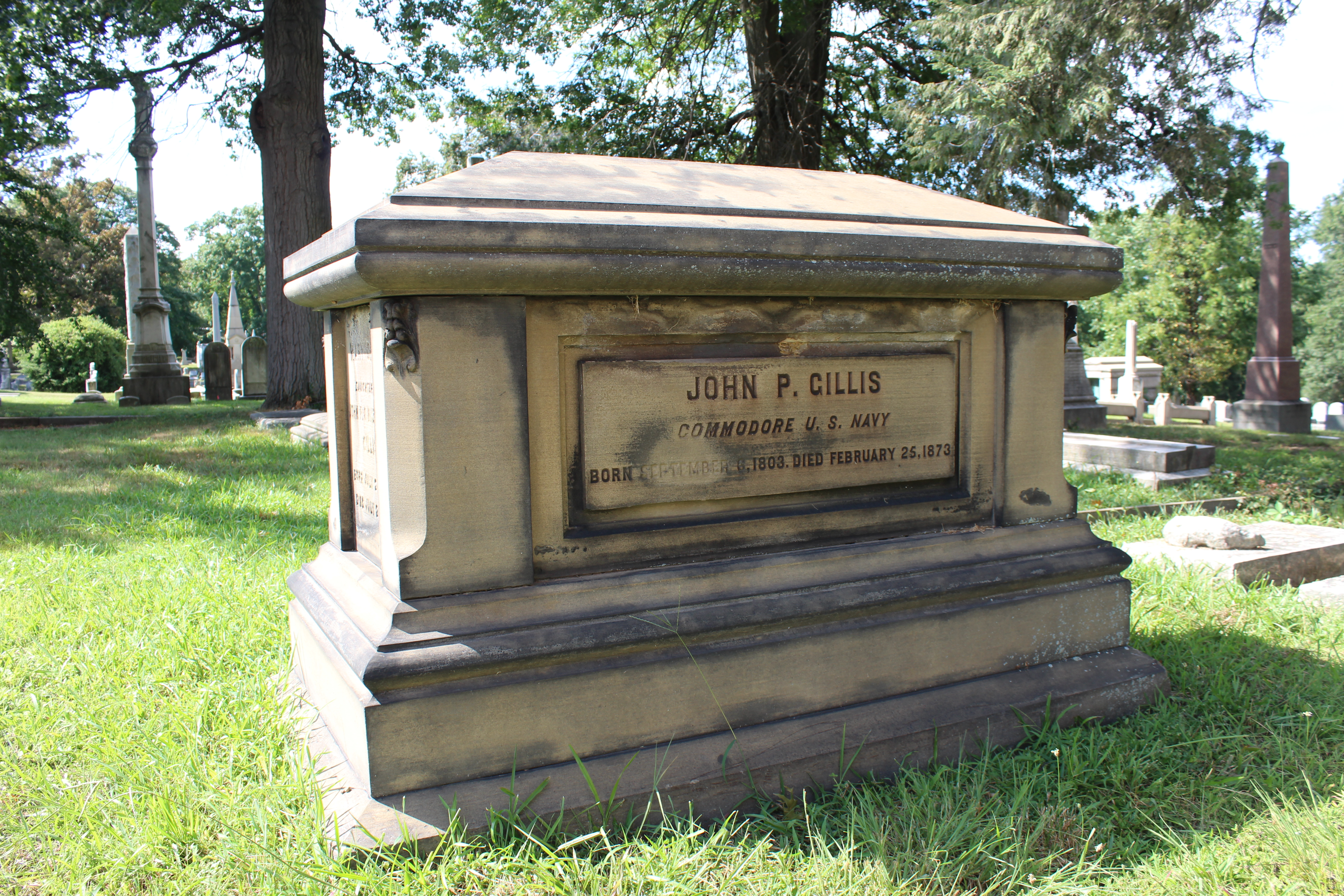 John P. Gillis Memorial in Wilmington and Brandywine Cemetery in Wilmington, Delaware. Photo taken August 2019.